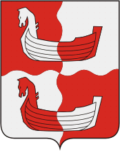 Strugokrasnensky rayon (Pskov oblast), coat of arms